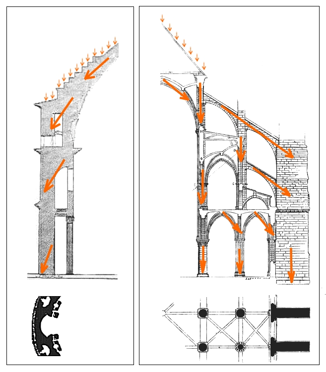 Different ways of load in Romanesque and Gothic vaults. (Self-made drawing using 2 PD engravings_/